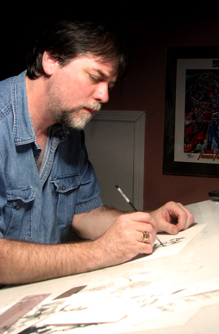 Steve Epting October 2010